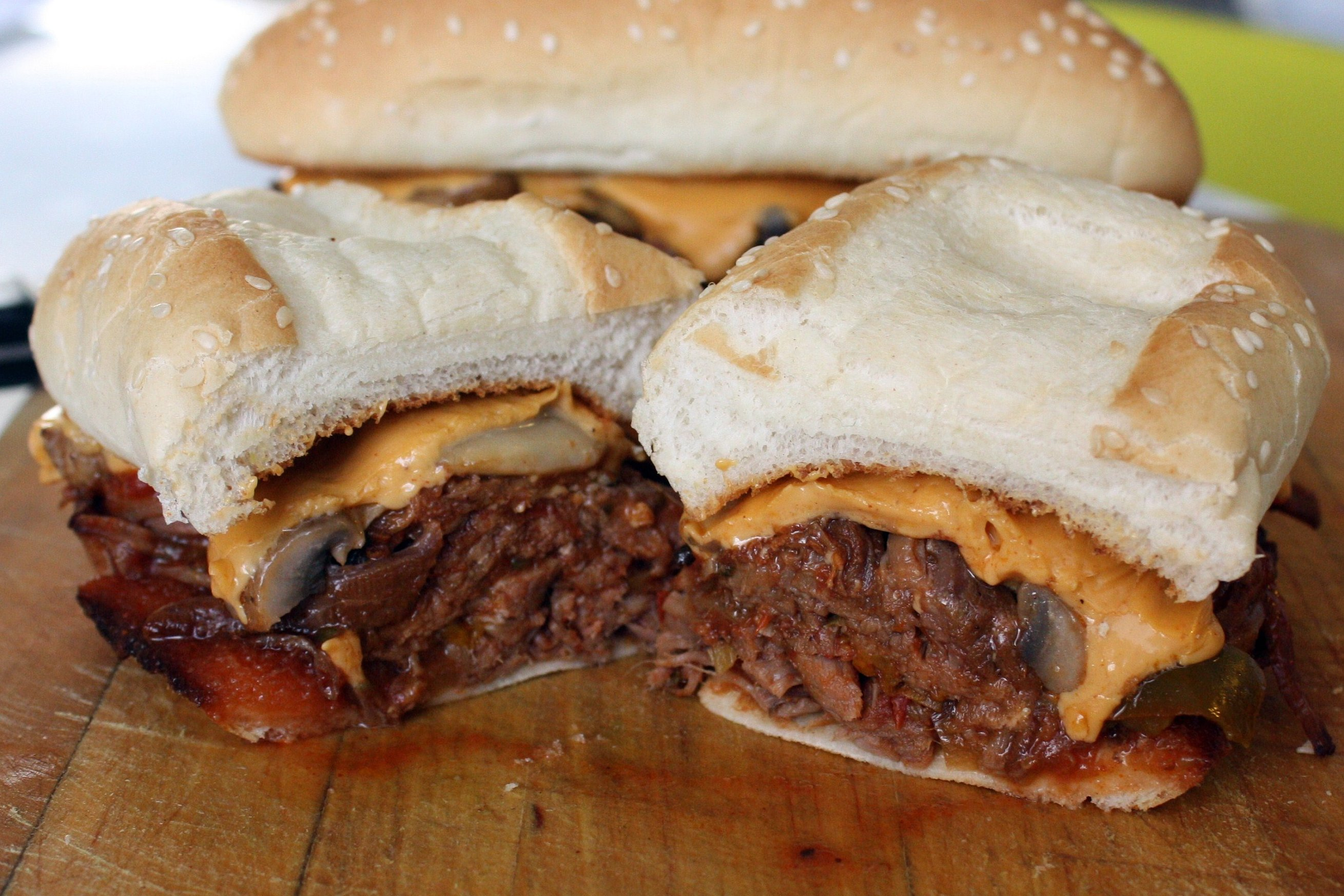 Shredded Steak with Peppers, Onions and Tomatoes (Ropa Vieja)